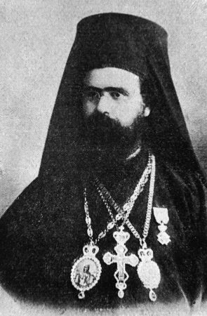 Ierotheos Anthoulidis (c. 1877-?): Metropolitan of Sisanio and Siatista